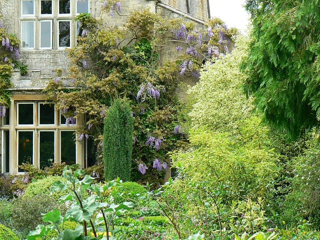 Barnsley House, Barnsley This is a closer look at part of the rear of what is now a high class hotel. Formerly it was the home of the late Rosemary Verey, an award-winning gardener and adviser to HRH Prince Charles.